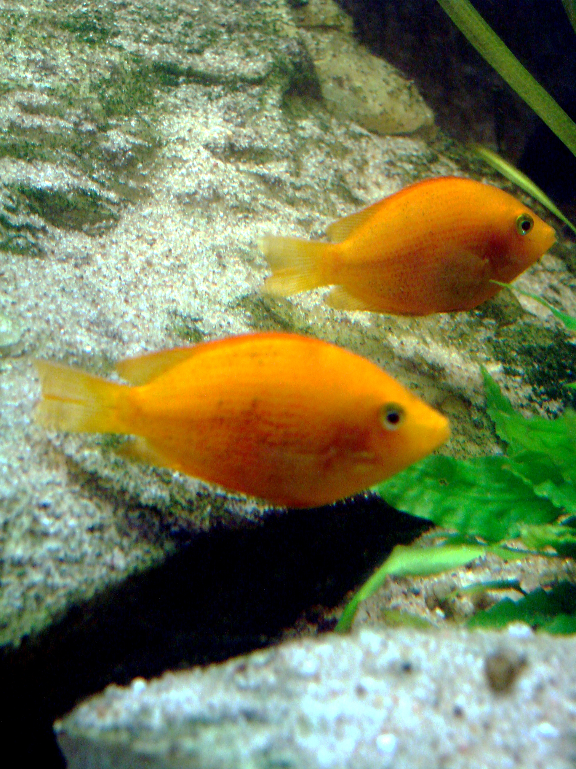 Picture taken in the zoo of Wrocław (Poland): Etroplus maculatus (Bloch, 1795)